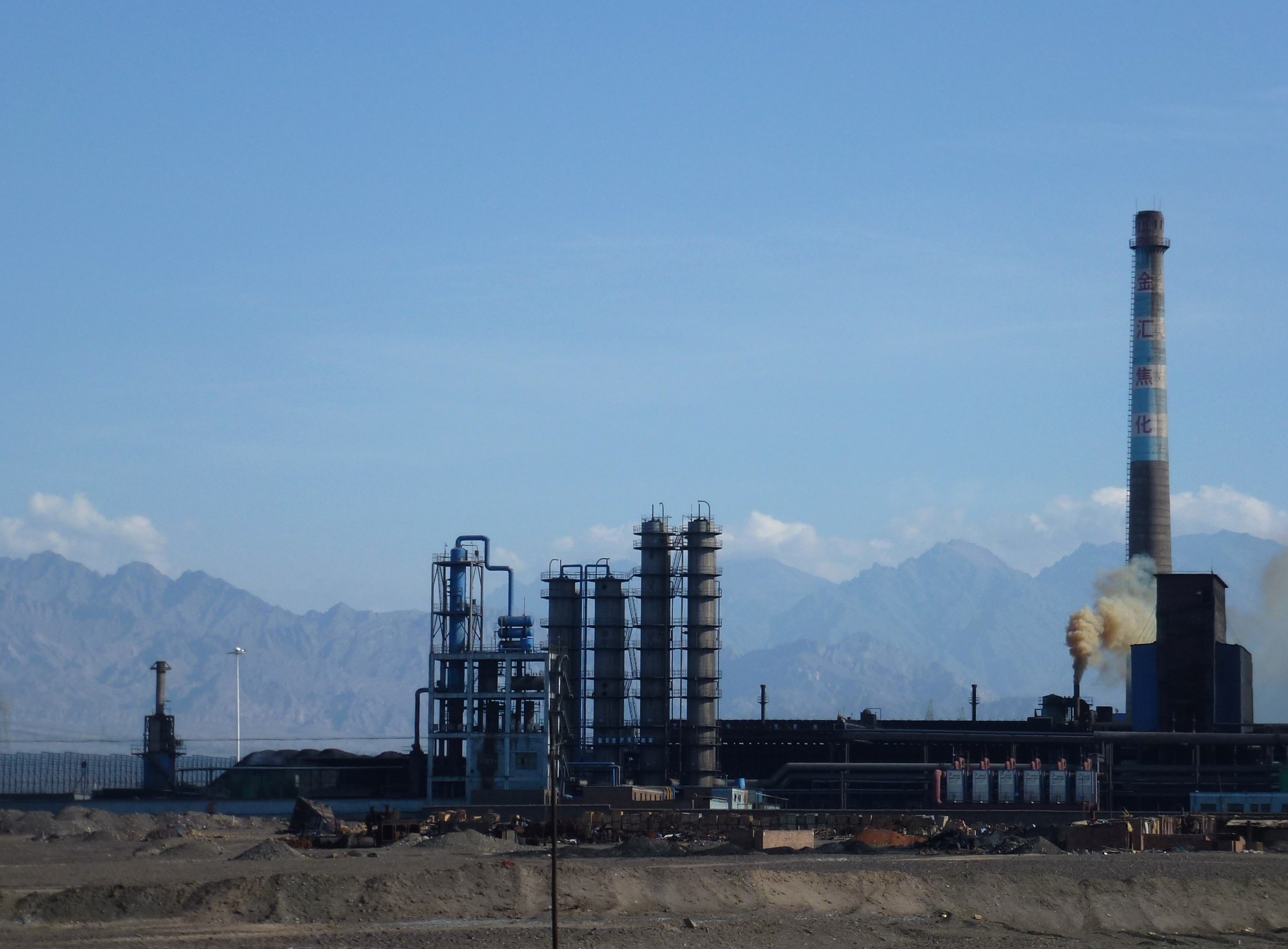 Coal working, Turfan basin 2012